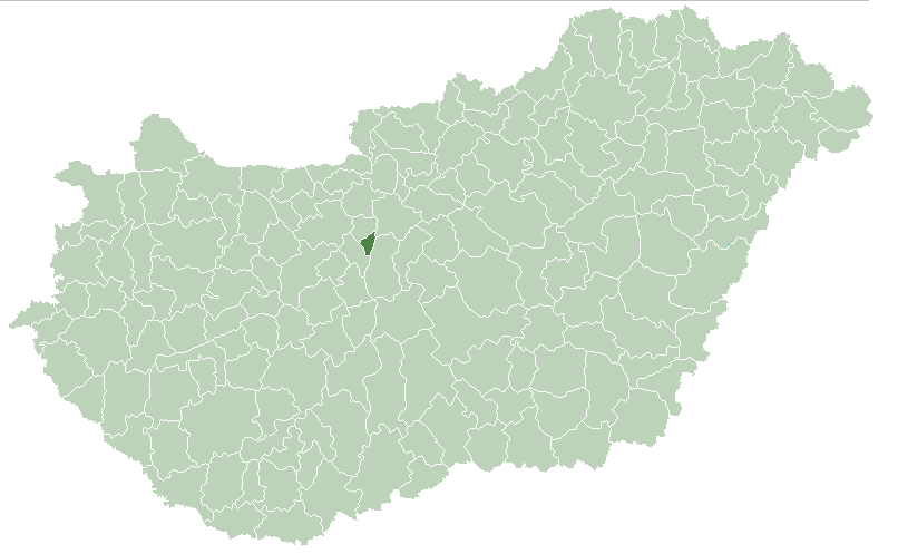 Location of subregion Érd, Hungary